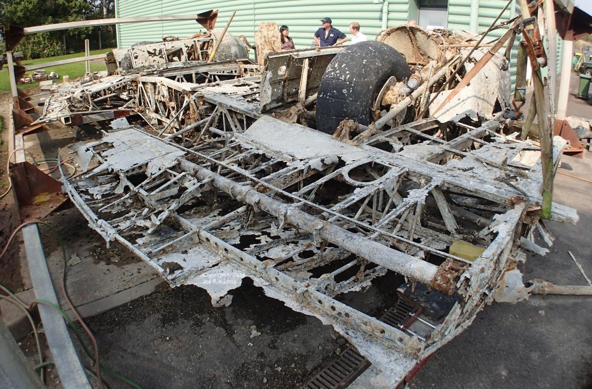 Dornier center wing section with nacelle of RAF Museums artifact recently removed from citric cleaning tent. Orientation off left wing as it is inverted. Still on frame being manually cleaned of loose sand and other debris.